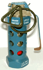 XM102 Reloadable Stun Practice Hand Grenade (RSPHG). Same design as the M84 Stun Hand Grenade; used for training.